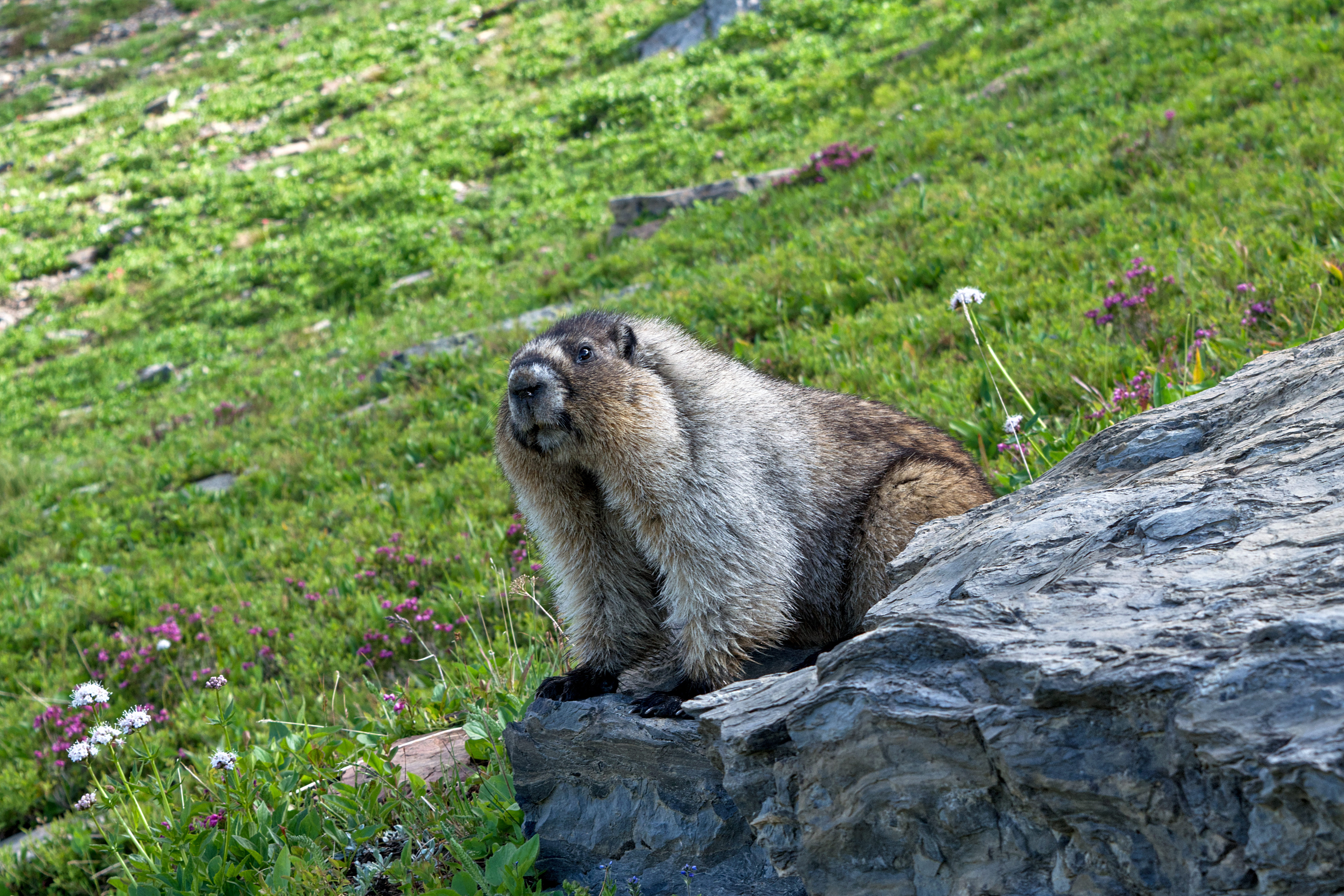 Hoary Marmot (Marmota caligata) in Glacier National Park, seen on the Logan Pass hike.